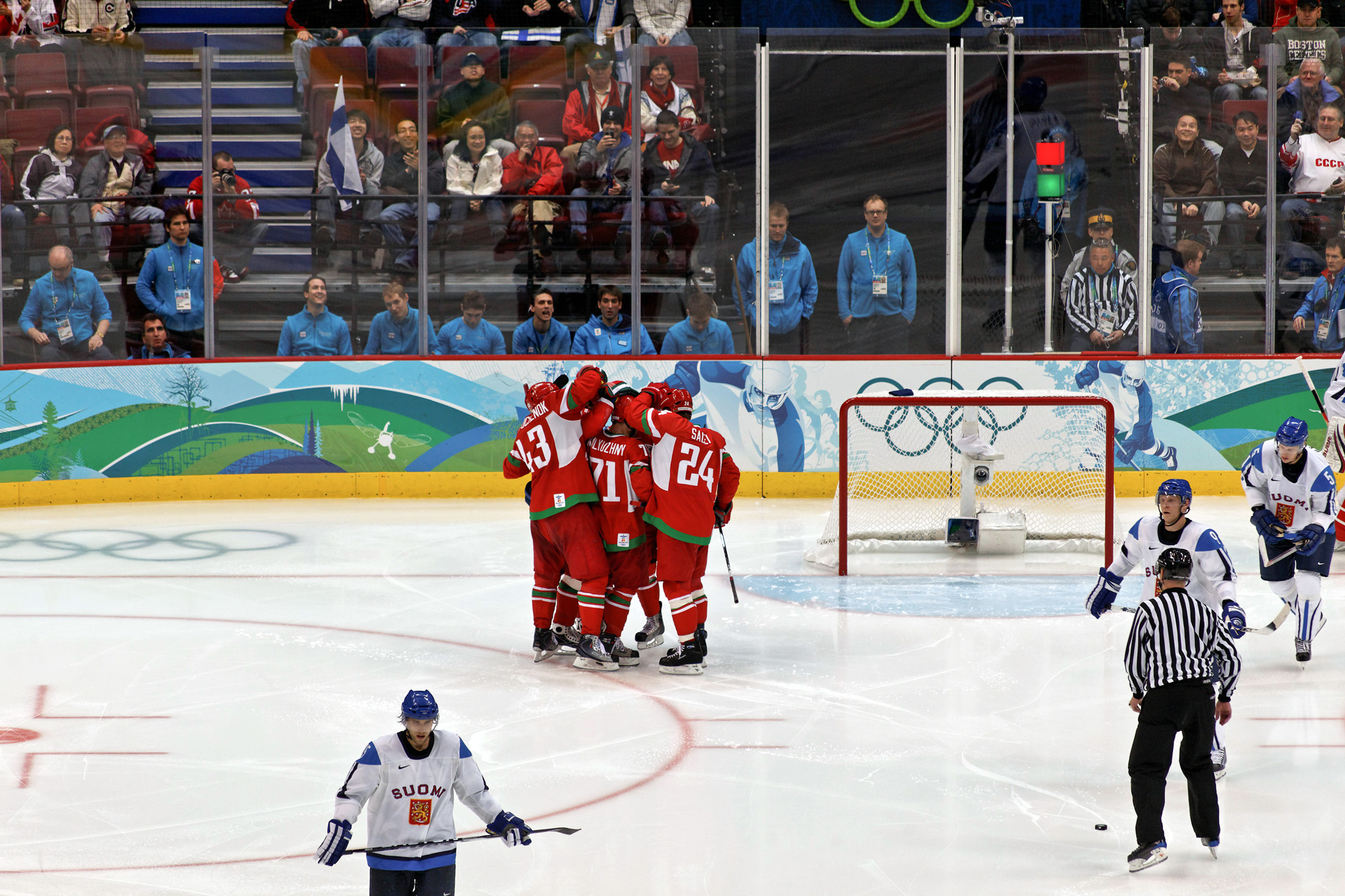 Sergei Kostitsyn and his teammates celebrate his first goal of the tournament, and Belarus' only goal of the game in a 5 - 1 loss to Finland.